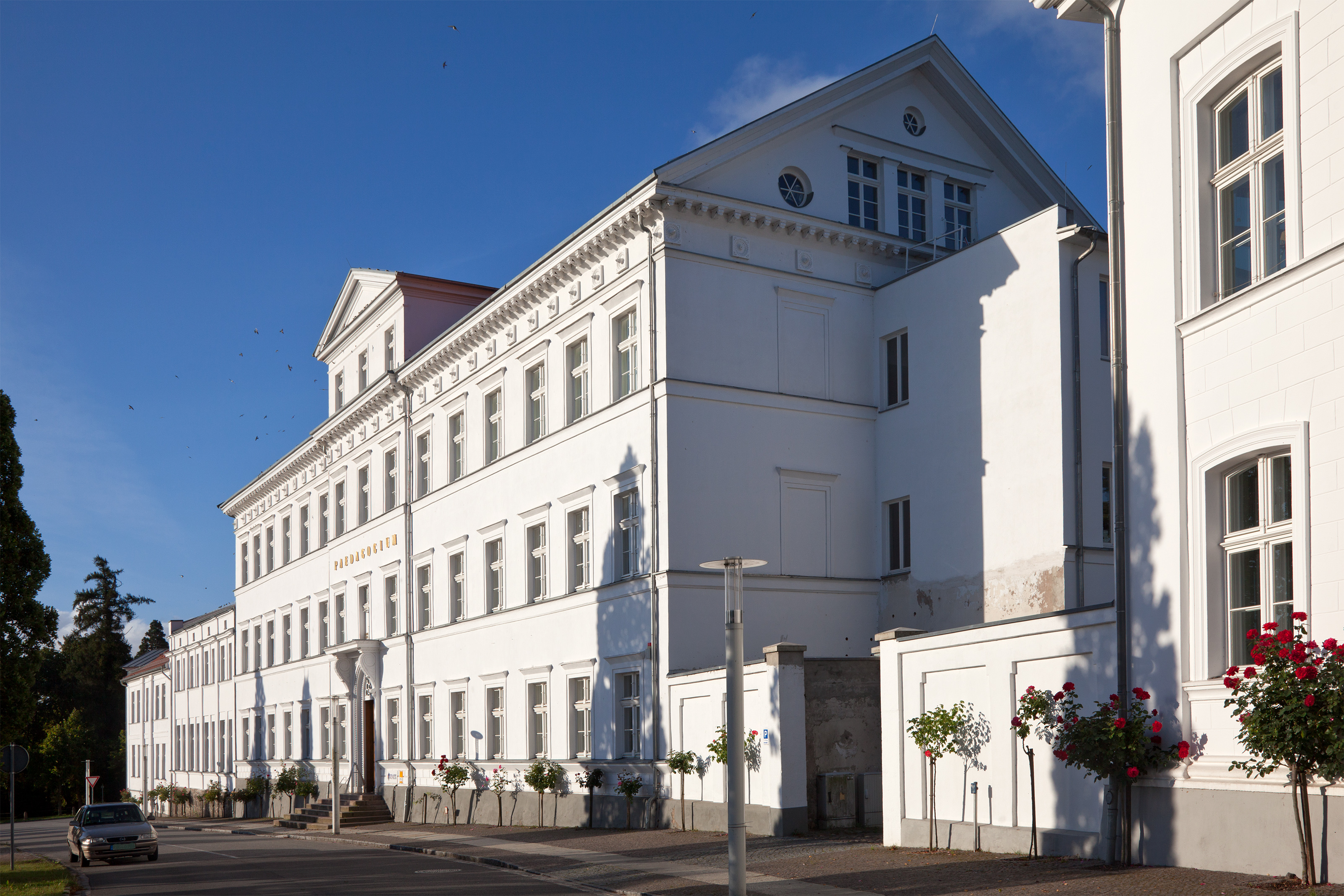 Putbus, Rügen island, Circus 16 (Pädagogium)